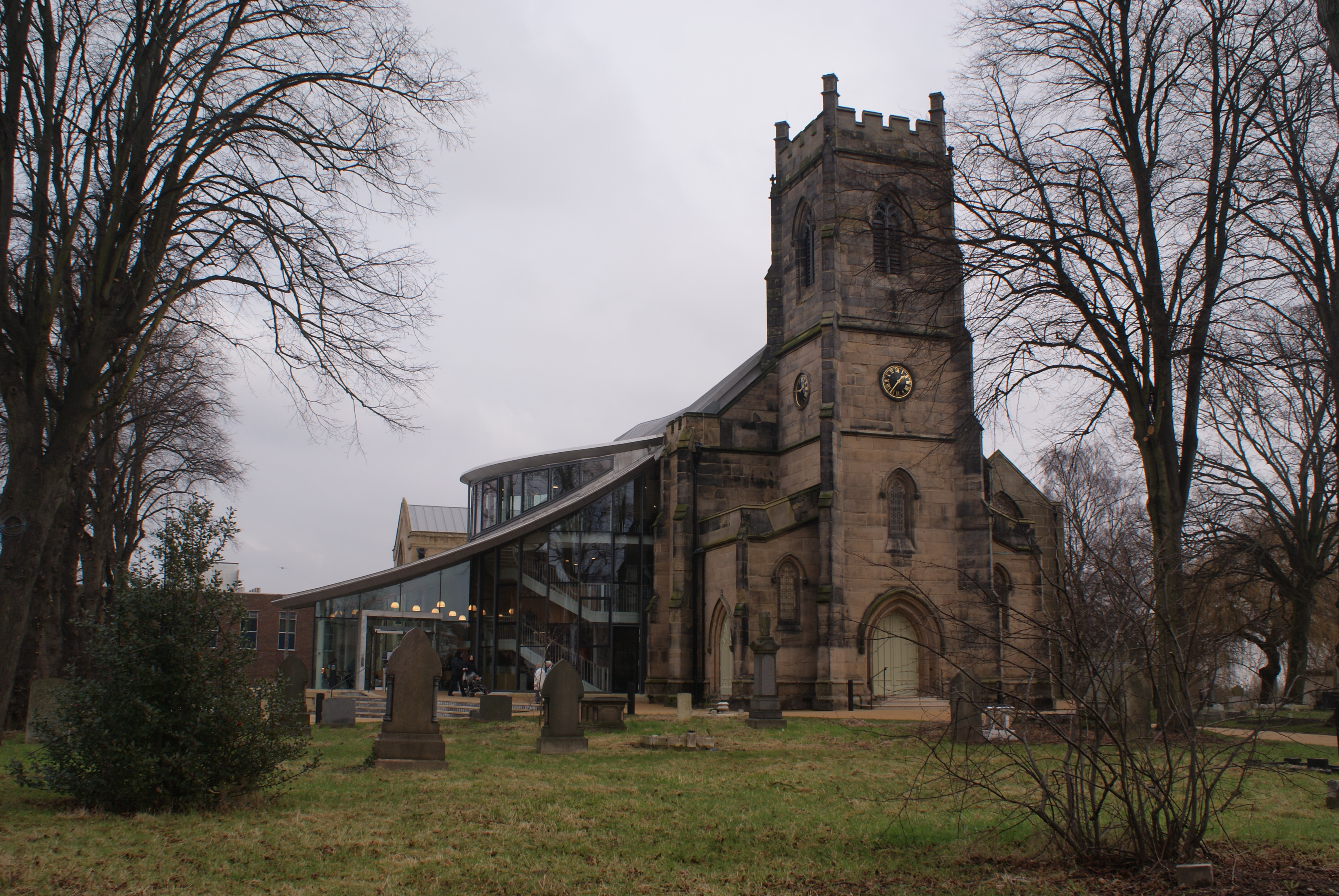 St. Barnabas' Church, Erdington after rebuilding, following the fire of 4 October 2007